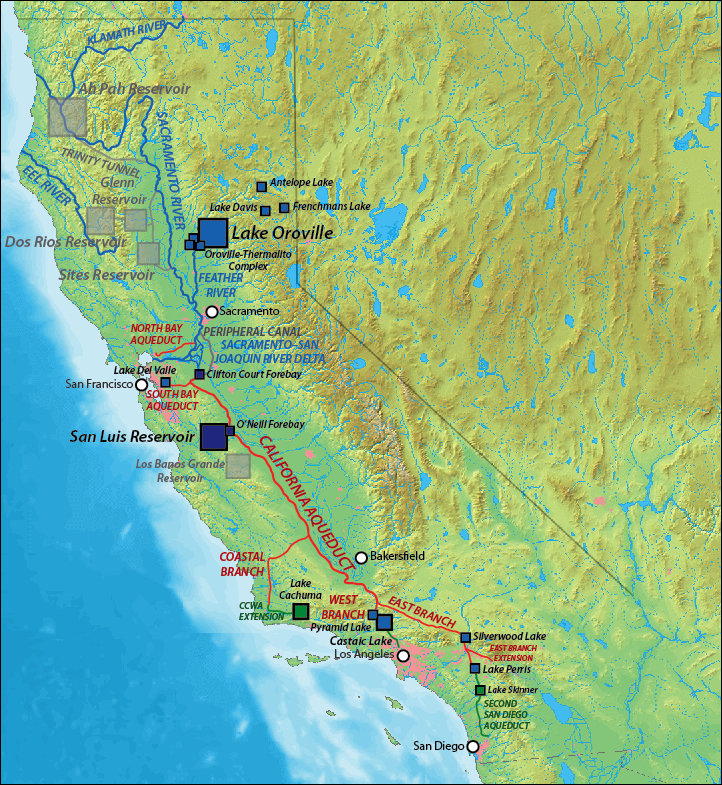 Map of the California State Water Project (SWP). Blue squares: existing SWP reservoirs Red lines: existing SWP canals, tunnels and aqueducts Blue lines: rivers and natural waterways Dark blue squares: SWP reservoirs shared with Central Valley Project Light gray squares and lines: Unbuilt reservoirs and canals originally planned under SWP Green squares and lines: Non-SWP distribution infrastructure supplied by SWP water